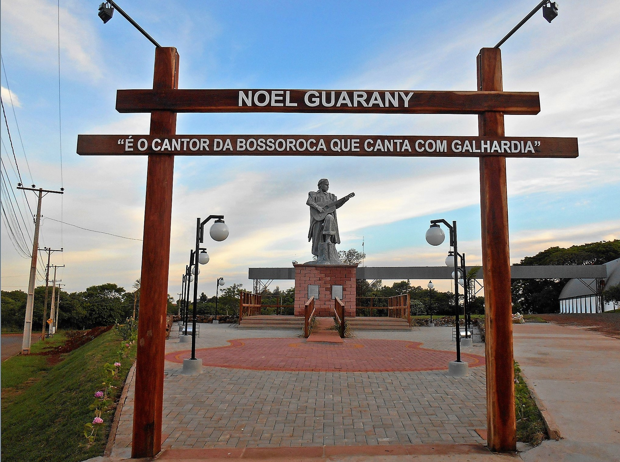 Monumento realizado com doações voluntárias, através da Confraria do Icamaquã, Bossoroca. Escultor Vinícius Ribeiro.